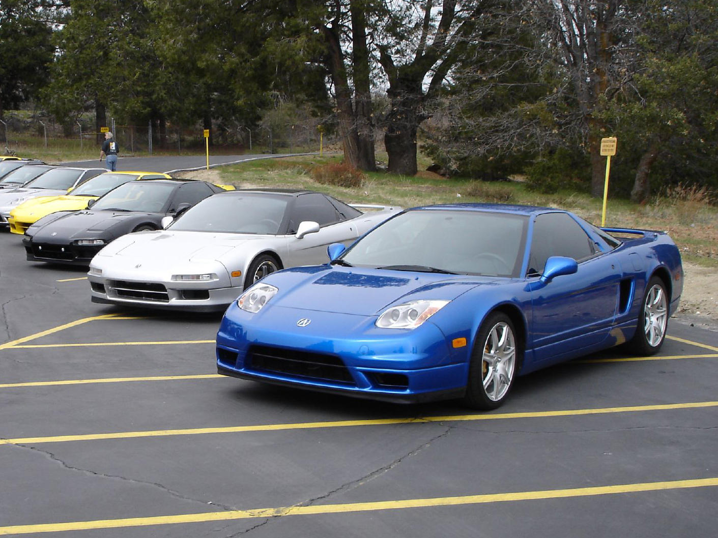 some car club showed up at the observatory before we went in. (lots of curvy roads on the way up!)